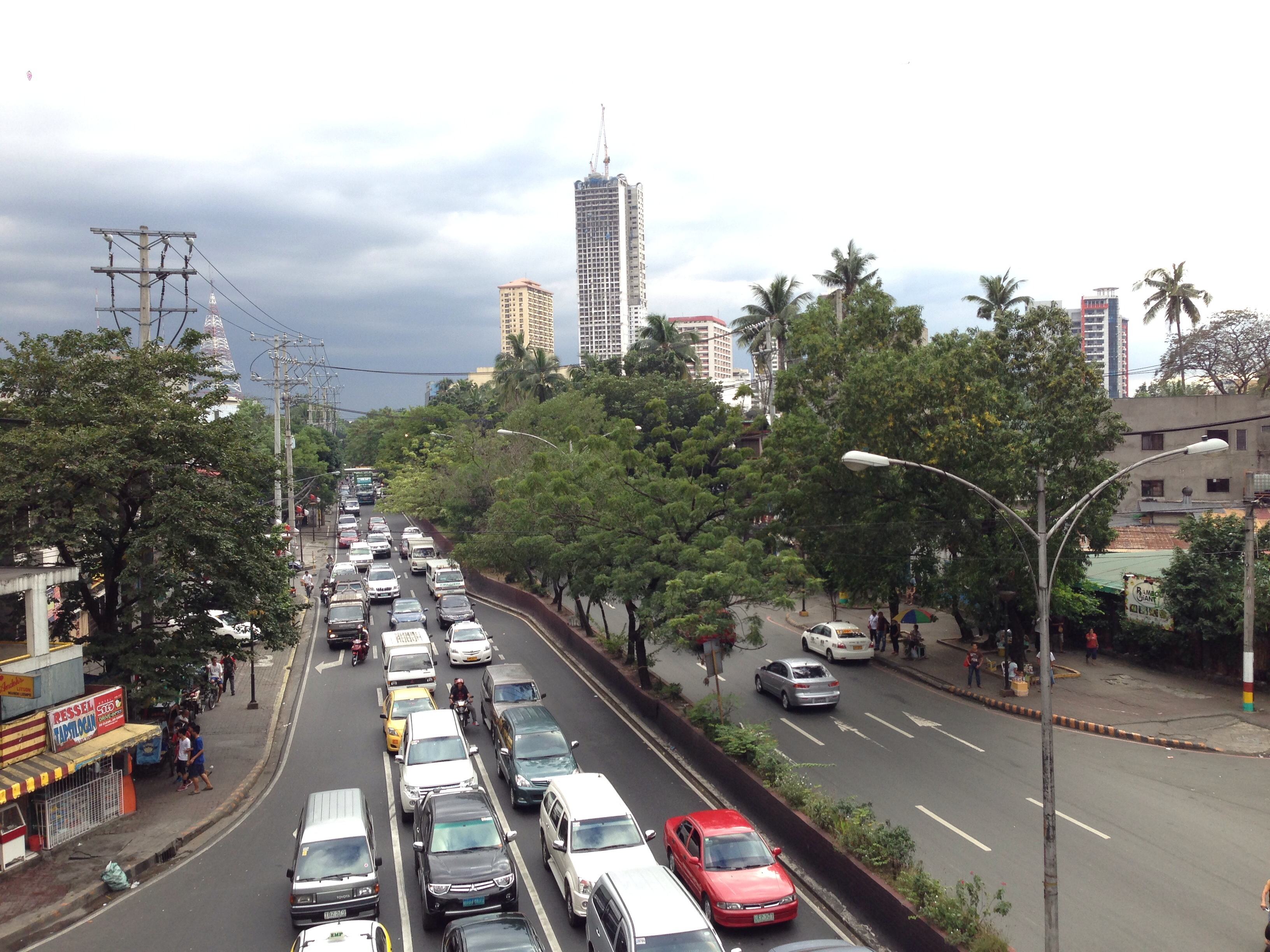 Quirino Avenue view from Quirino LRT Station, Malate, Manila